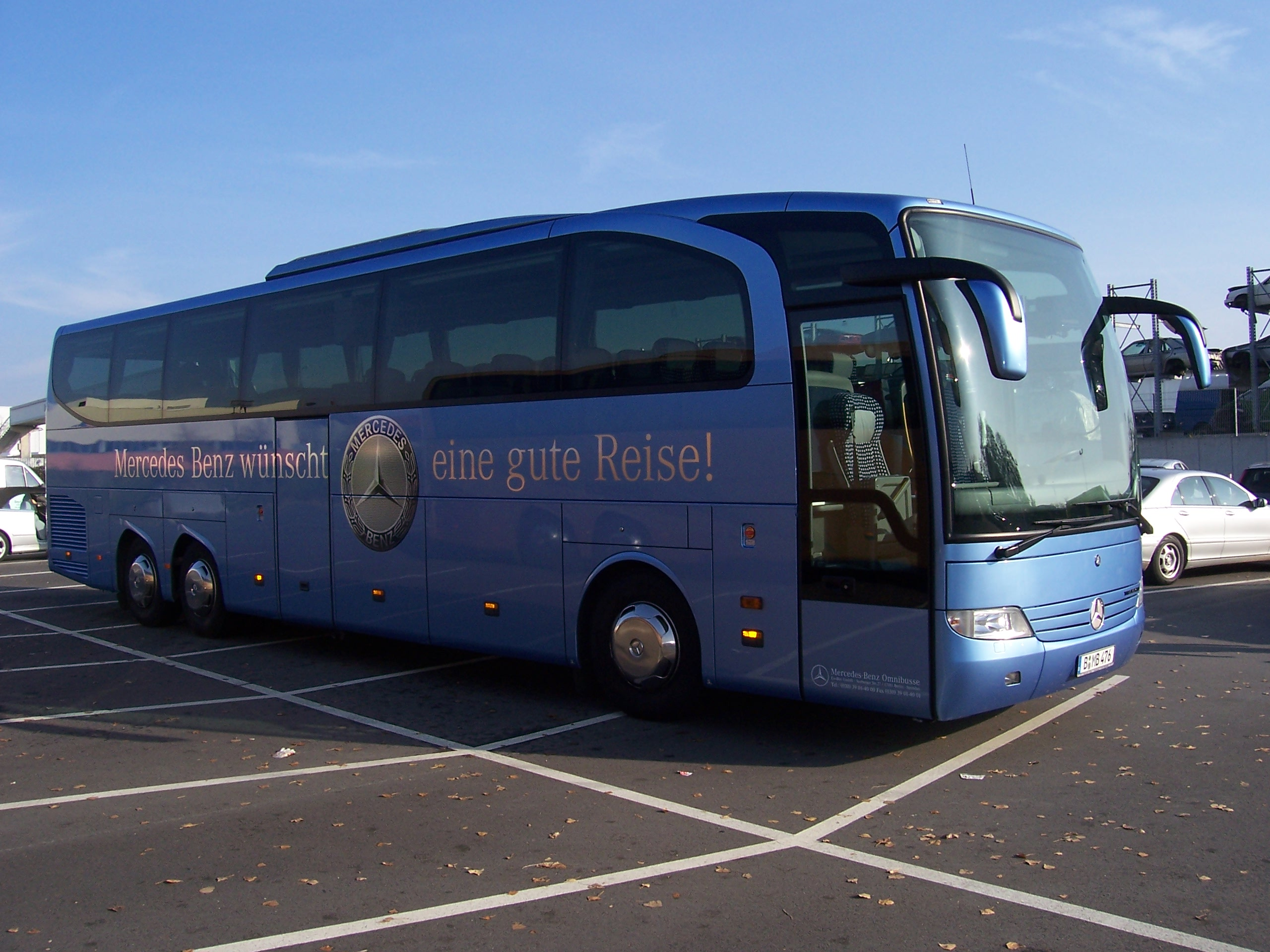 An EvoBus/Mercedes-Benz Travego coach (reg. B-MB 476) at MOT 2005 in Mannheim, Germany. My own photo from 13-nov-2005.